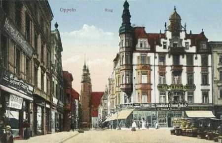 Northern side of Opole's Town square in the early XX century.